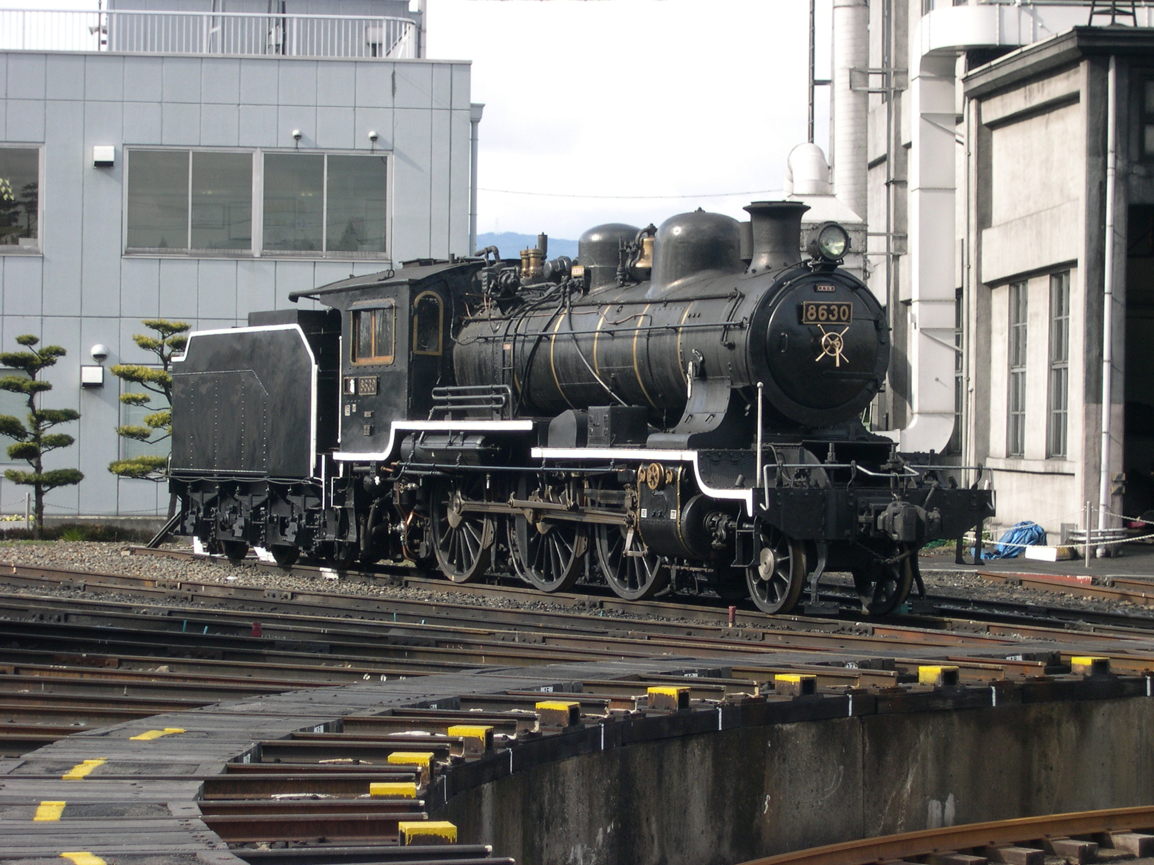 JNR 8630 Steam Engine at the Umekoji Museum